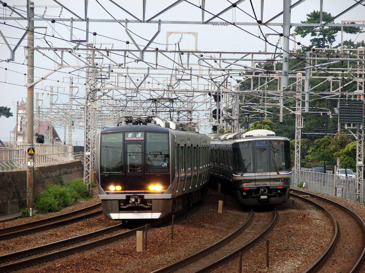 Quadruple track section on JR Kobe Line between Suma and Shioya